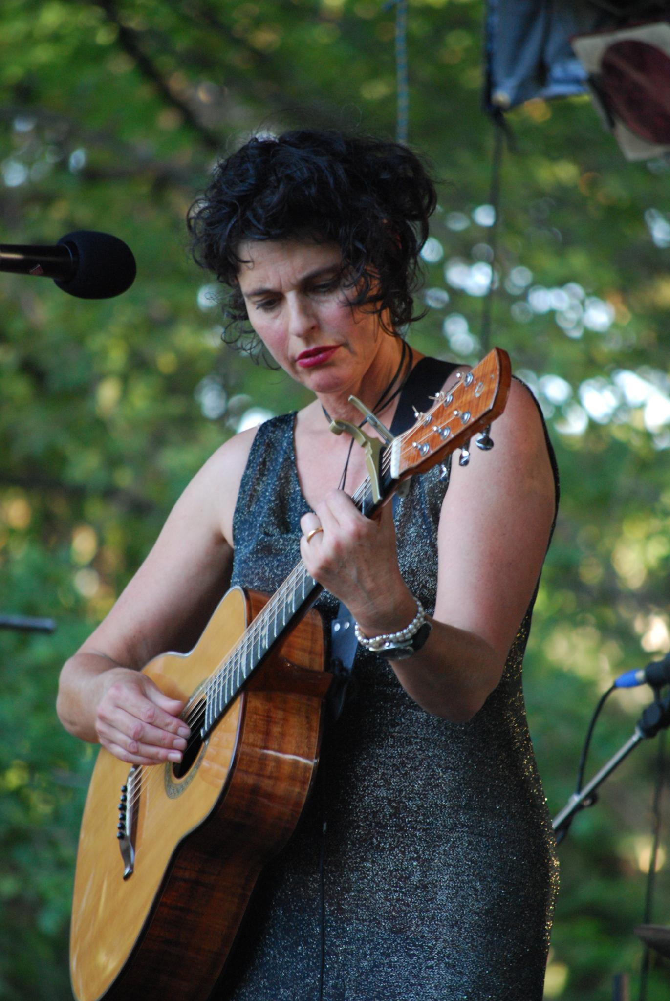 Sunset Concerts - Deborah Conway 30/01/2010